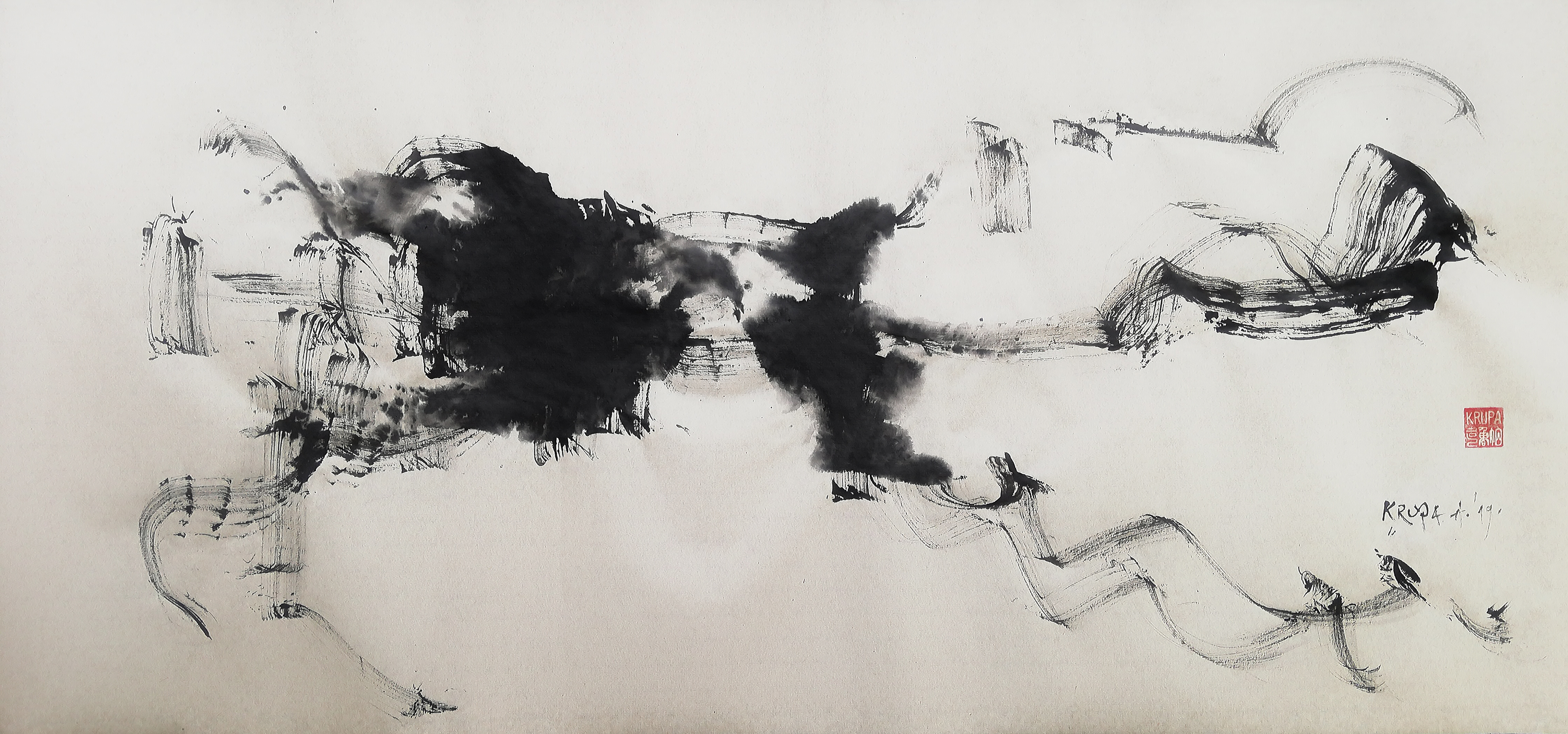 Style: Sumi-e (Suiboku-ga), Ink and wash painting Genre: landscape Media: japanese paper, ink, feather Dimensions: 46 x 99 cm